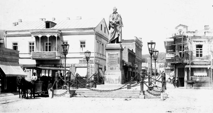 Image Title: Tiflis. Monument kniazia Vorontsova na Mikhailovskom mostu. Alternate Title: Tbilisi: Monument to Prince Vorontsov at Mikhailovsky Bridge